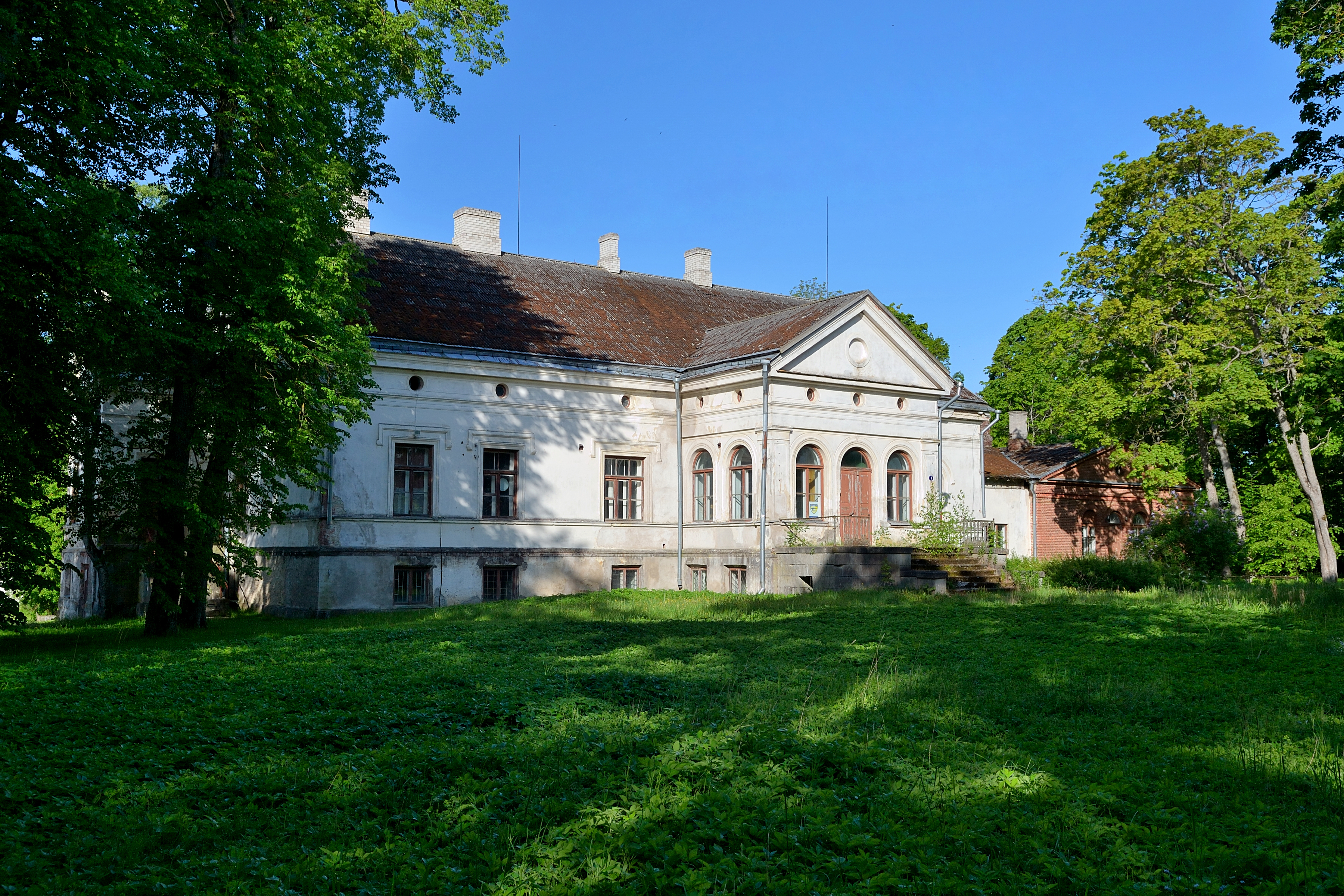 Imastu manor main building